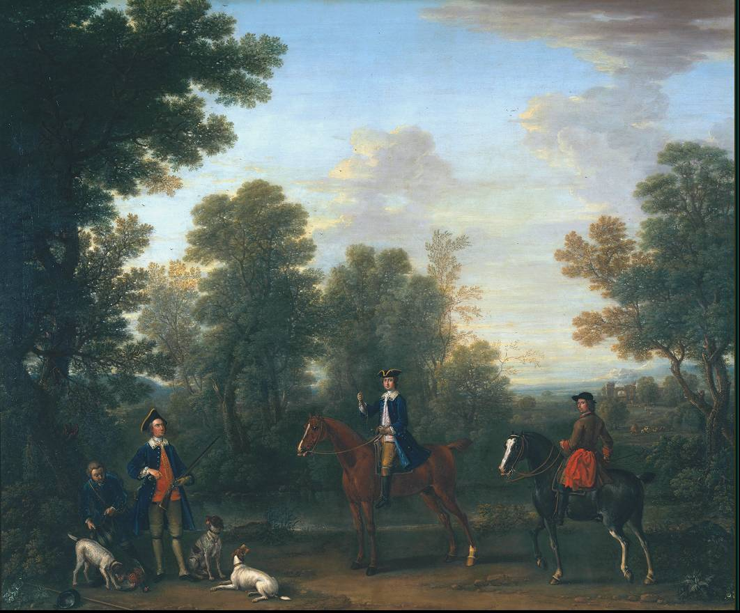 George Henry Lee, 3rd Earl of Litchfield, and his Uncle the Hon. Robert Lee, Subsequently 4th Earl of Litchfield, Shooting in ‘True Blue’ Frock Coats: Robert Lee is on the left with the gun, George Lee, 3rd Earl of Lichfield mounted in the centre. The blue coats connote their Jacobitism.